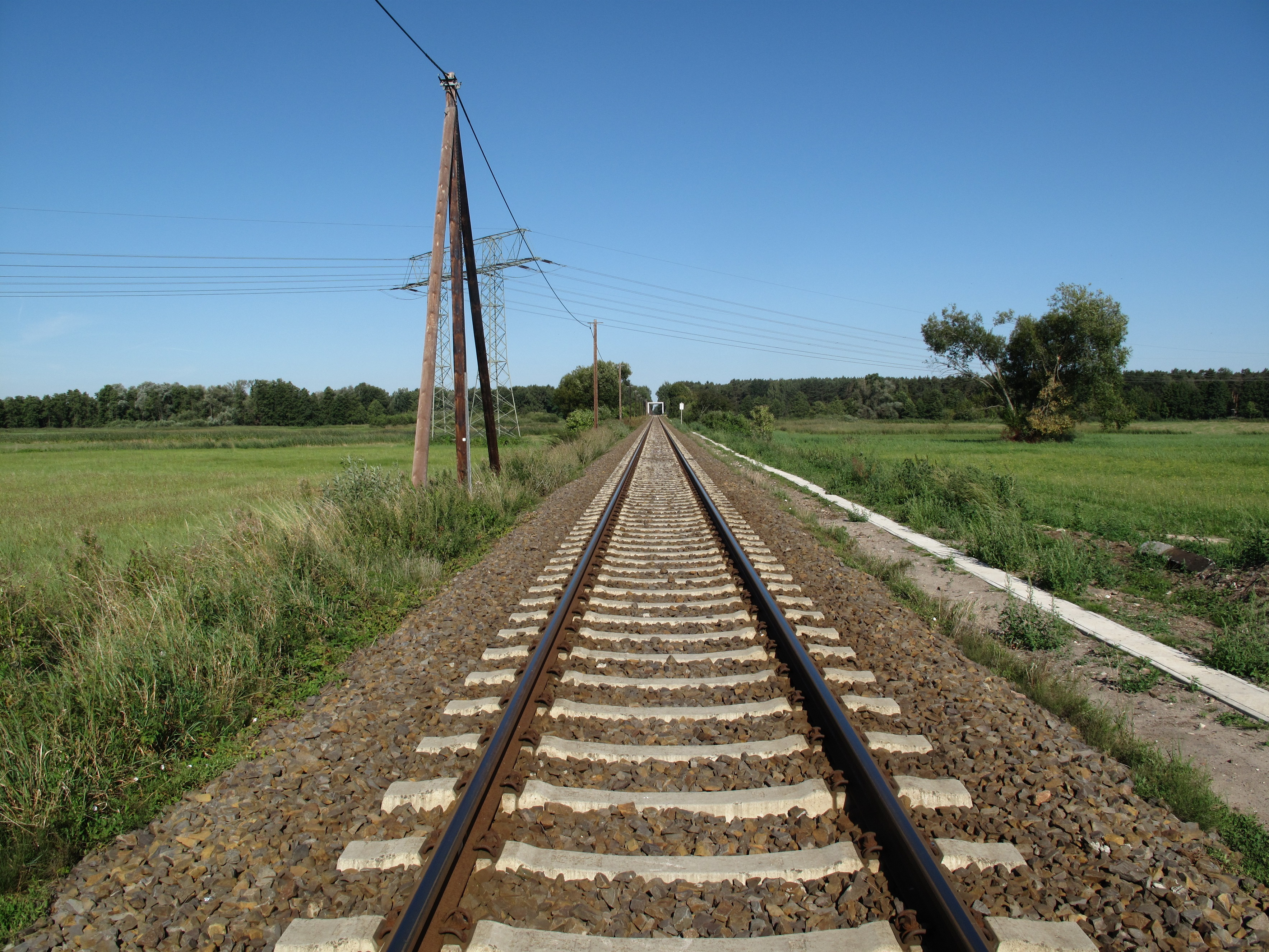 Railway line Königs Wusterhausen–Grunow in the Luchwiesen. The „Naturschutzgebiet Luchwiesen“ is a Naturschutzgebiet (protected area) and Natura 2000-area in the district Oder-Spree in Brandenburg, Germany. It is situated in the territory of the town Storkow and in the territory of Storkow’s Ortsteil (quarter)) Philadelphia (village). The area covers 109,57 hectare, is flown by the Storkower Kanal (water canal) and is placed in the Dahme-Heideseen Nature Park. It is characterised among others by inland salt marsh-meadows and makes up according to the German Federal Agency for Nature Conservation (Bundesamt für Naturschutz – BfN) the largest and most important inland salt marsh in Brandenburg.